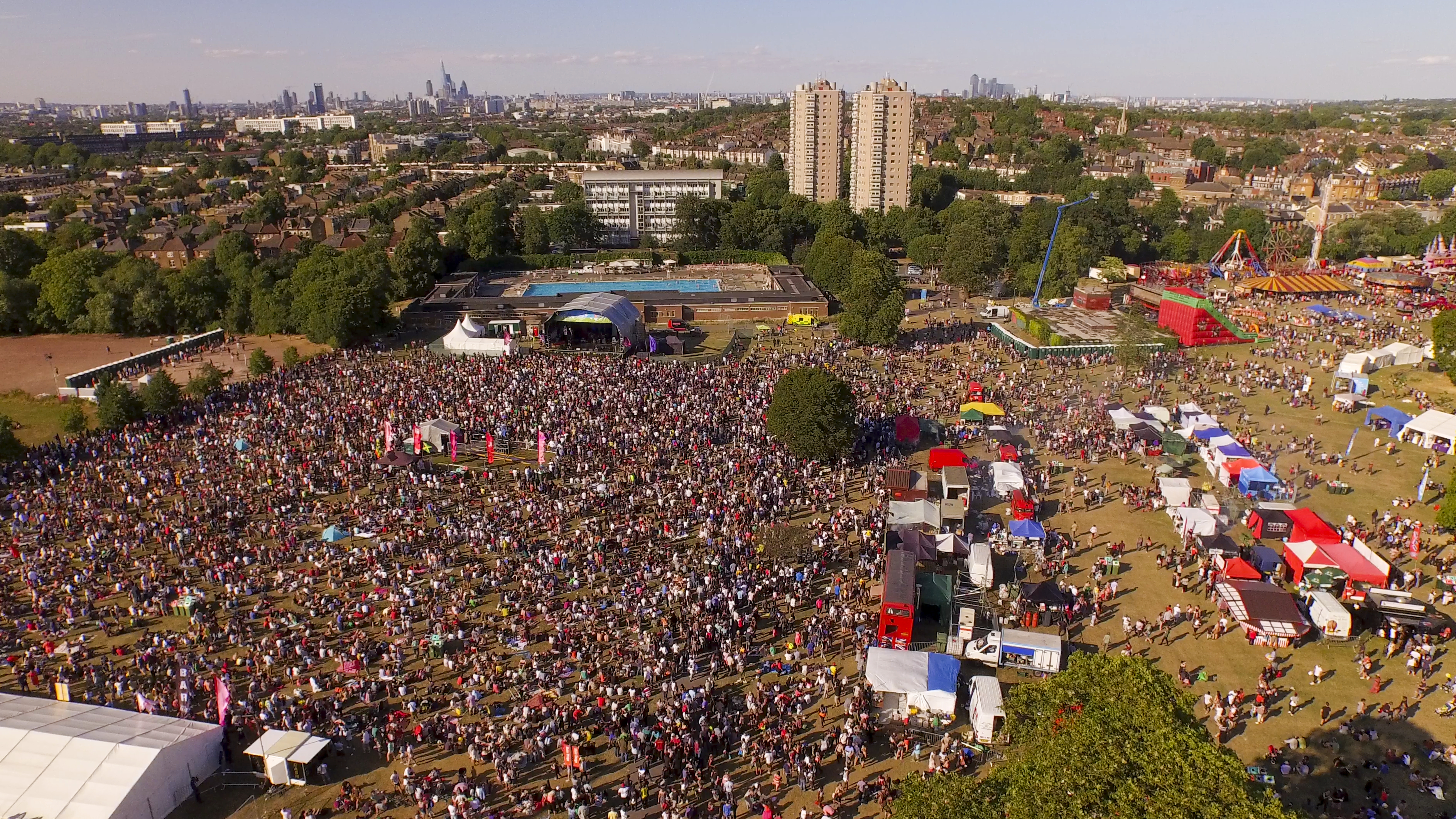 Drone shot image of the Main Stage field 2015.